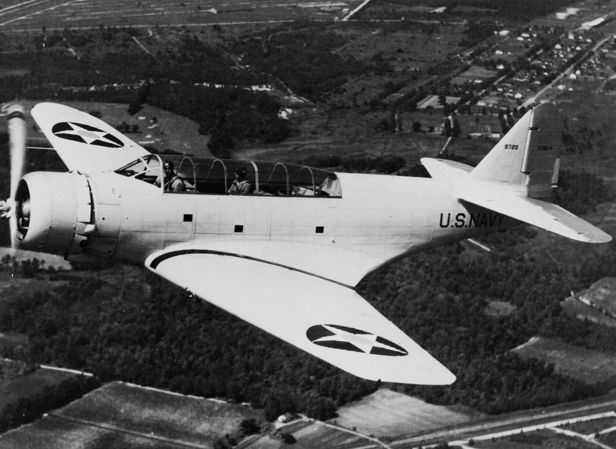 The U.S. Navy Douglas XTBD-1 Devastator (BuNo 9720) pictured in flight over the Virginia countryside. This particular aircraft made its maiden flight on 15 April 1935, and underwent performance trials at NAS Anacostia, NAS Norfolk, and NPG Dahlgren, Virginia (USA) until November 1935. After completing carrier trials on board USS Lexington (CV-2) off the coast of California, the aircraft returned to the Douglas plant in 1936 for overhaul and minor modifications, including a redesigned canopy. Returned to the U.S. Navy in December 1936, it was employed in flight testing until scrapped at NAS Norman, Oklahoma, on 10 September 1943.